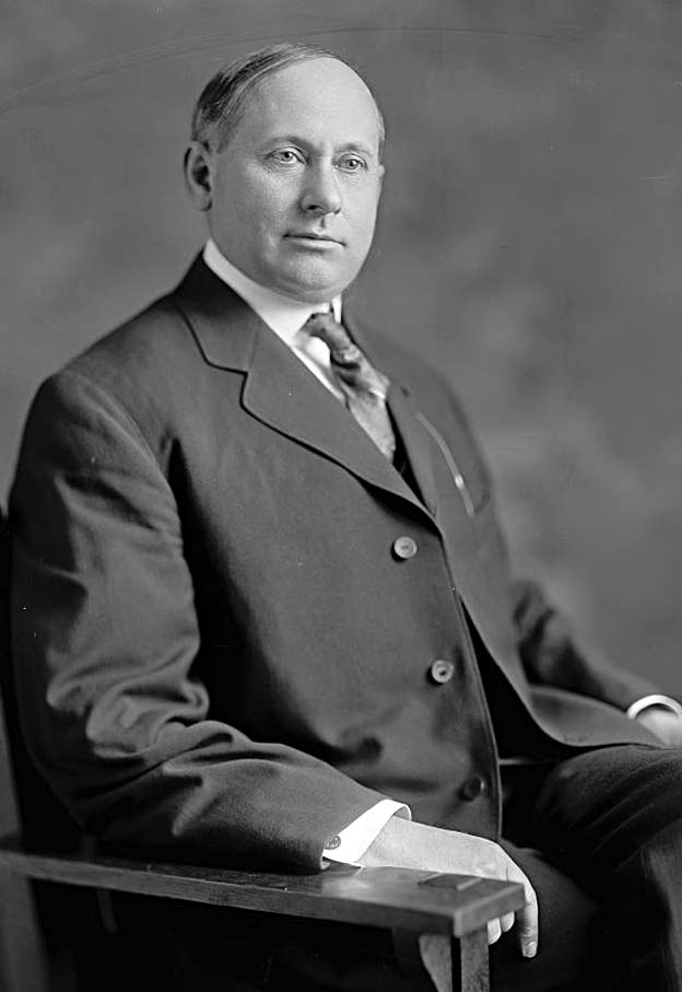 Senator Thaddeus H. Caraway of Arkansas